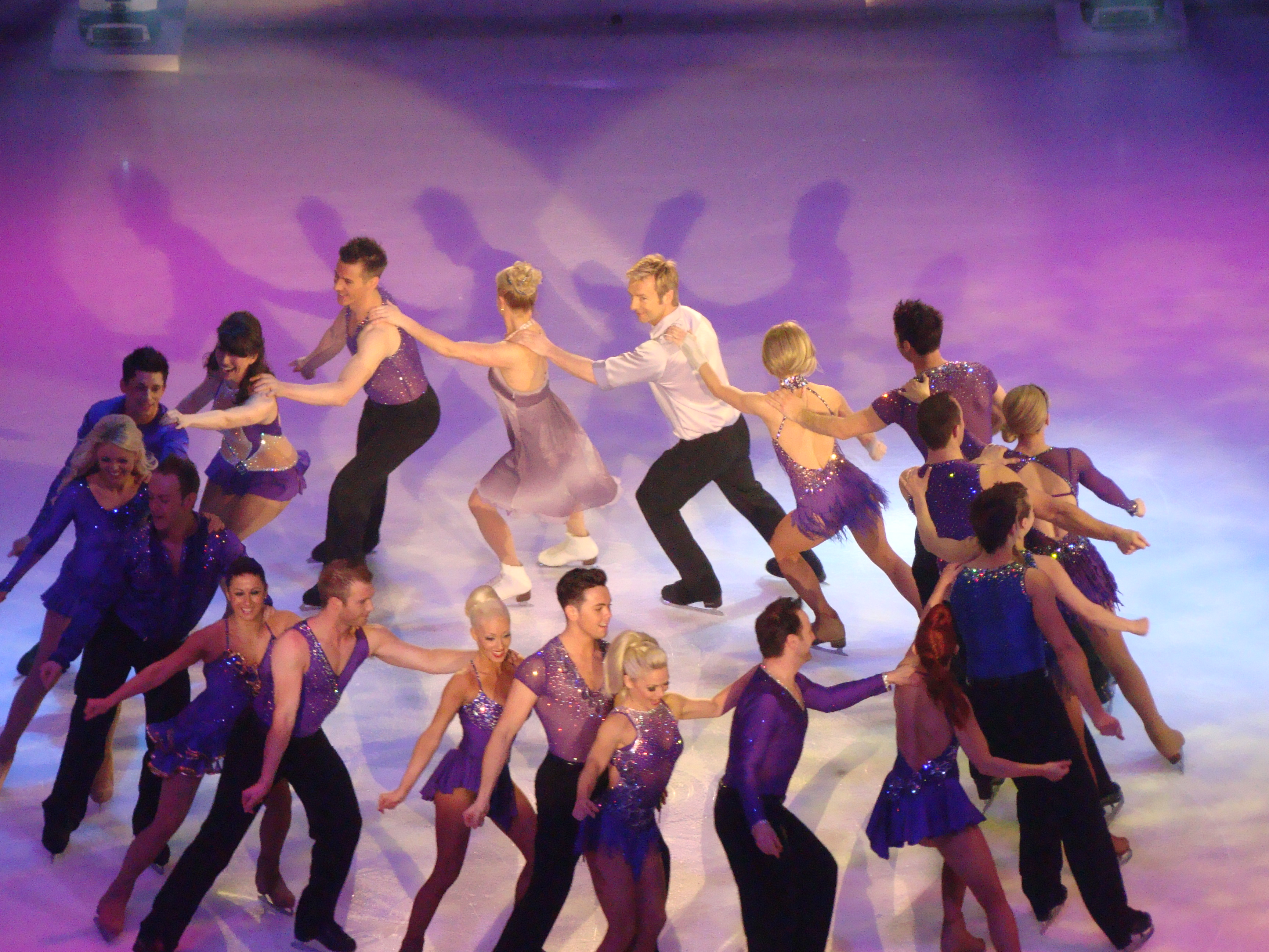 Party Time!